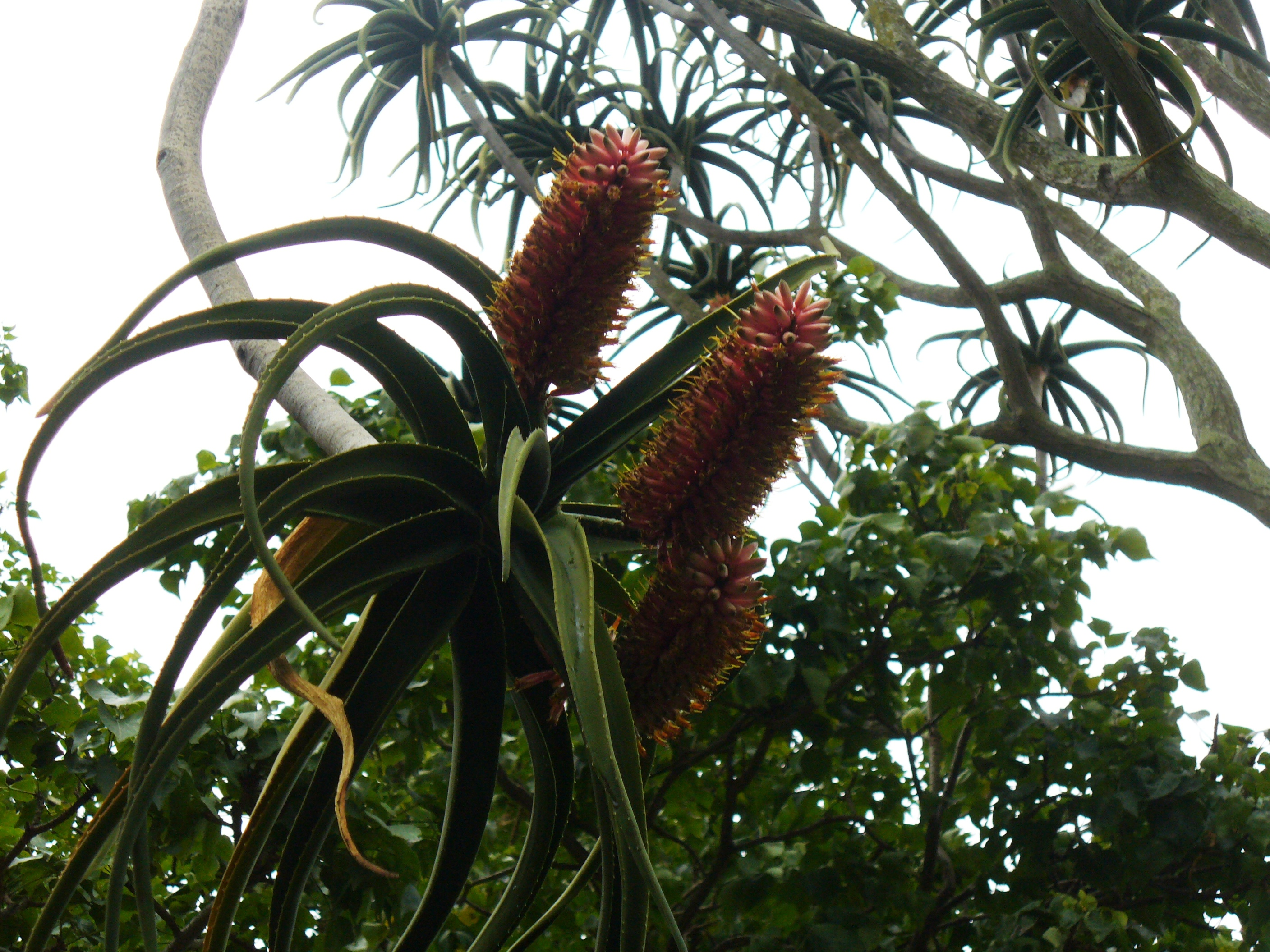 Aloe barberae flowers Company's Gardens Cape Town